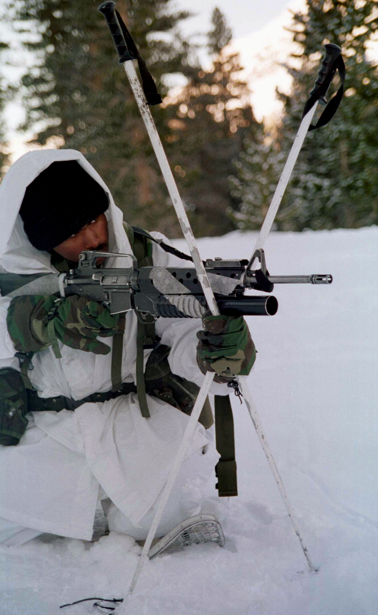 A 1st Platoon, Lima Company Marine uses his ski poles to steady his M-16A2 rifle during a live fire exercise at the Mountain Warfare Training Center, Bridgeport, Calif., on Feb. 8, 1997. Marines from the 2nd Marine Regiment and 3rd Battalion, 8th Marines of Camp Lejeune, N. C., are at the Center to train in cold weather survival and arctic warfare. This M-16A2 is equipped with a M-203 40 mm grenade launcher. DoD photo by Lance Cpl. E.J. Young, U.S. Marine Corps